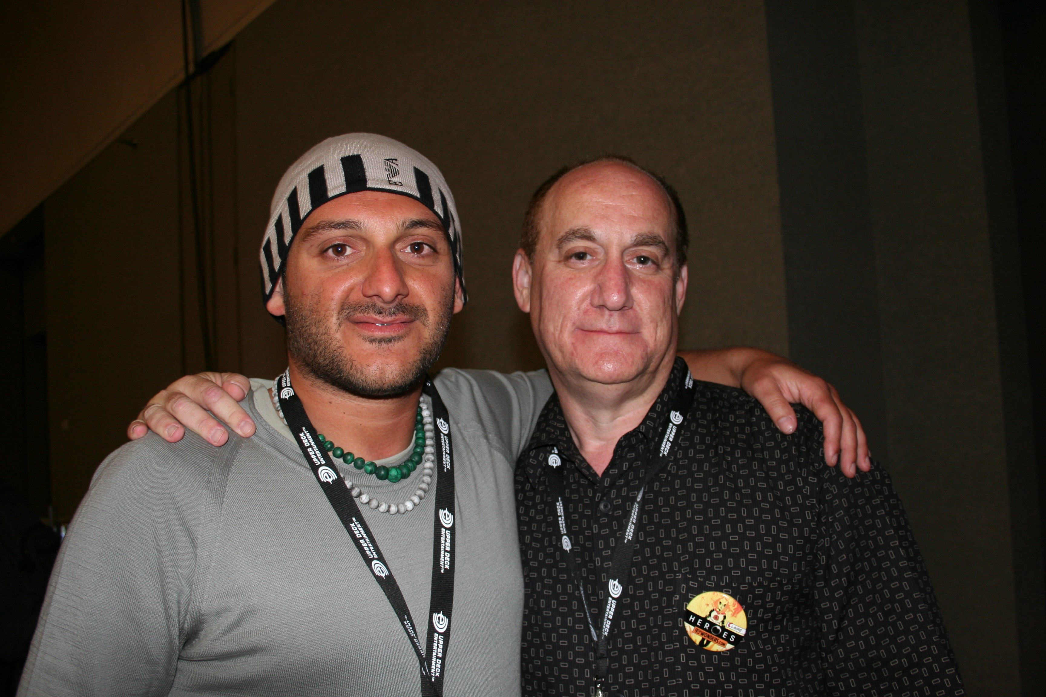 Artist Simone Biachi and writer Jeph Loeb anouncing, at the 2006 San Diego ComiCon, that they will be the new creative team of the title Wolverine.